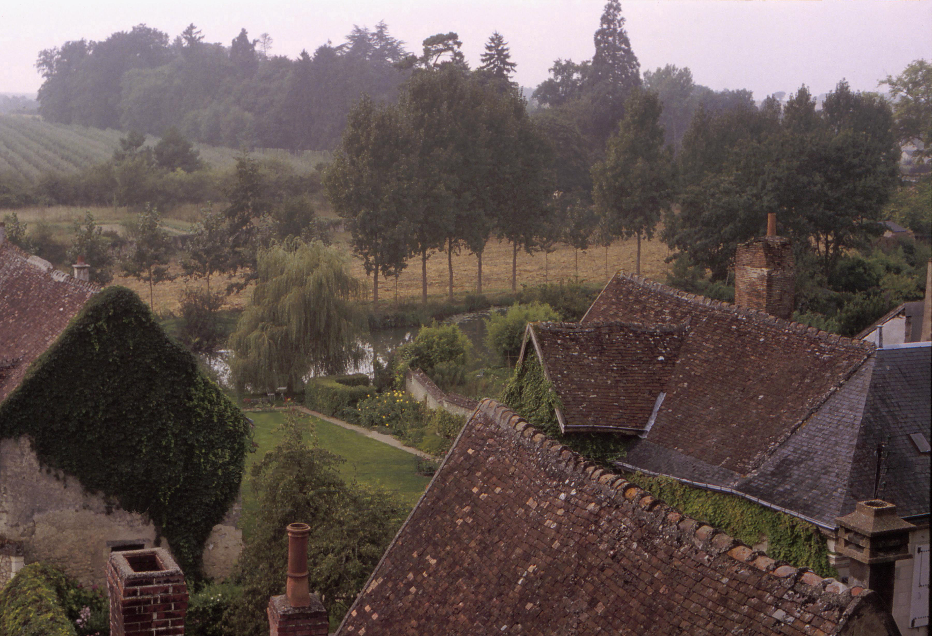 Village of Montresor, 1981